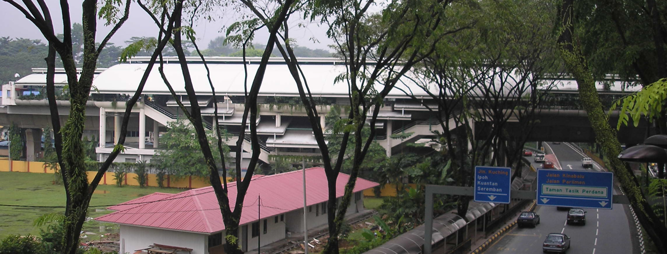 An exterior view towards the west (along Jalan Sultan Ismail (Sultan Ismail Road) of the Sultan Ismail station (common Ampang Line route), in Chow Kit, Kuala Lumpur, Malaysia.